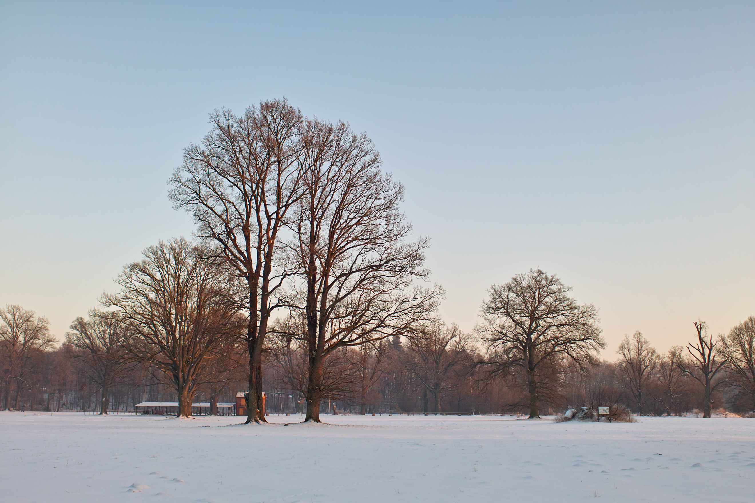 Southeastern part of English park near Jemcina castle, Czech Republic.